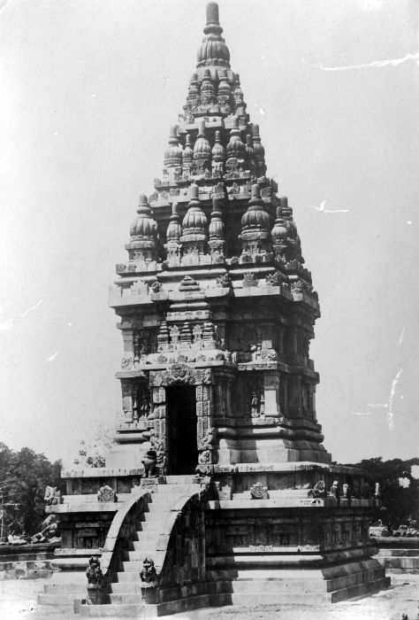 The Candi Lara Jonggrang or Prambanan temple complex